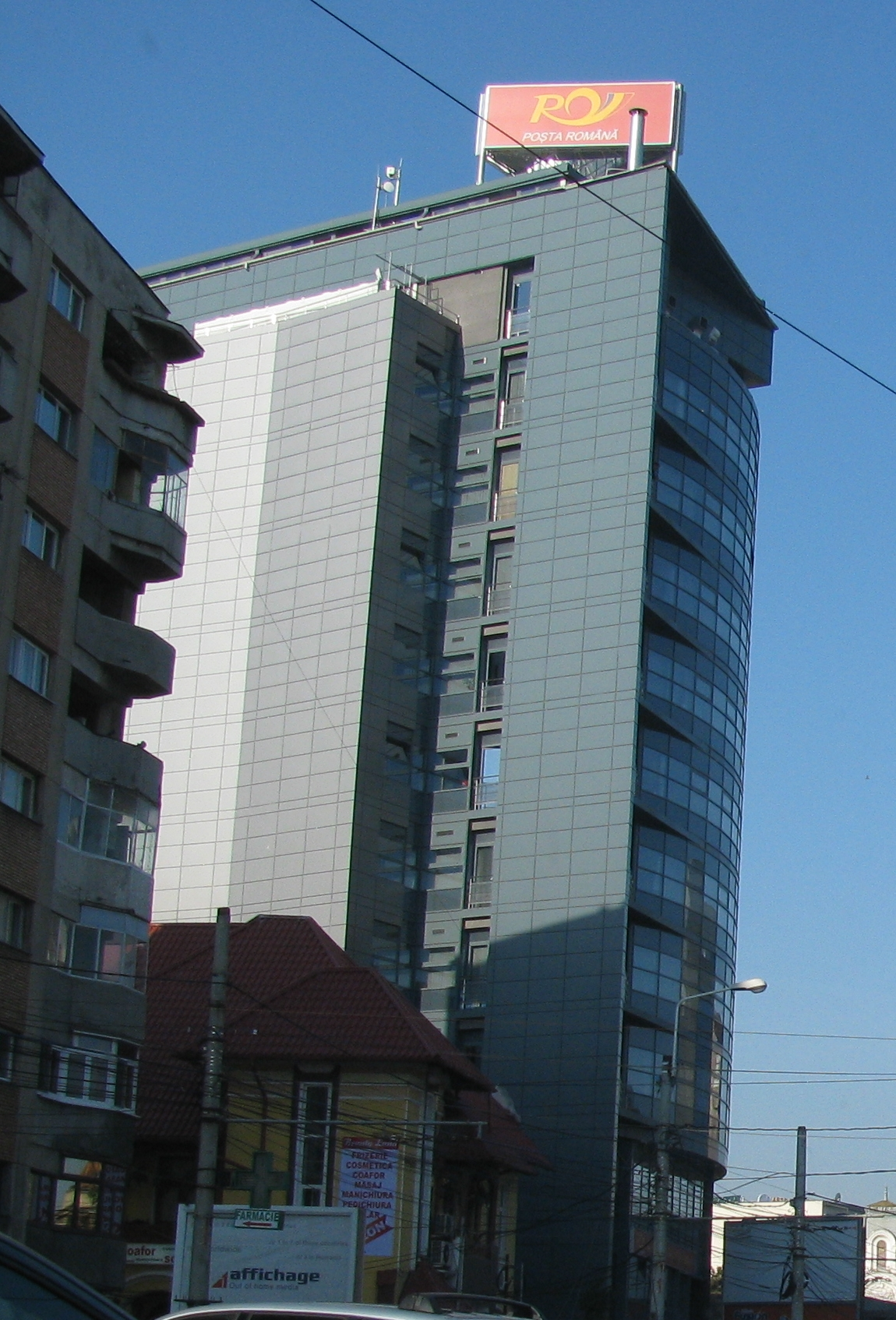 The central office of Romanian mail in parkway Dachija in Bucharest